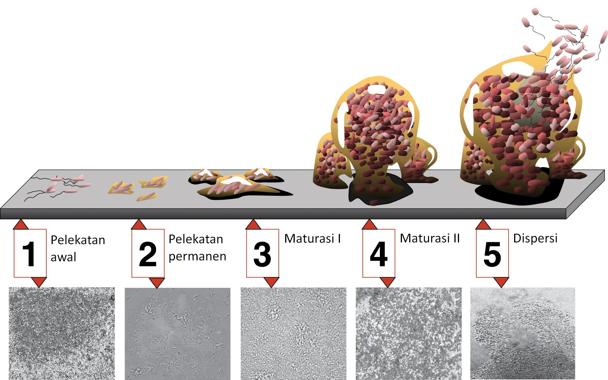 5 stages of biofilm development. Stage 1, initial attachment; stage 2, irreversible attachment; stage 3, maturation I; stage 4, maturation II; stage 5, dispersion. Each stage of development in the diagram is paired with a photomicrograph of a developing P. aeruginosa biofilm. All photomicrographs are shown to same scale.